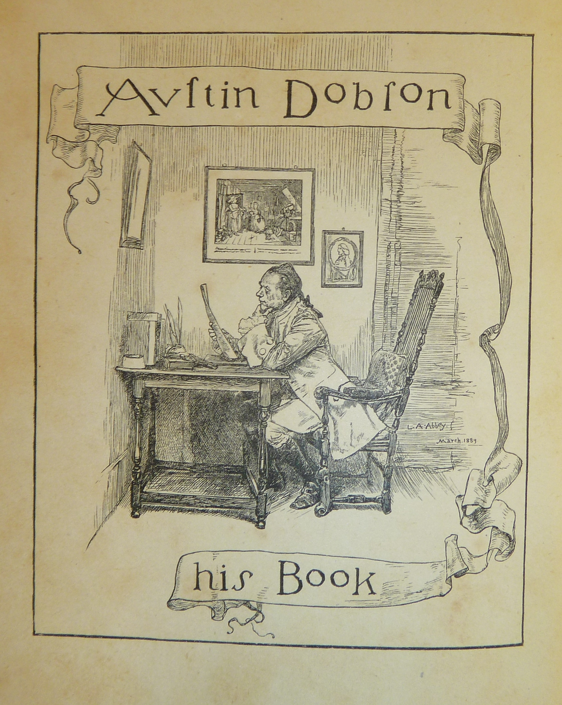 Bookplate of Henry Austin Dobson (1840-1921), English poet and essayist Penn Libraries call number: EC85 D6568 883o 1886 Flickr data on 2011-08-12: Camera: Panasonic DMC-ZS5 Tags: EC85 D6568 883o 1886, English Culture Class Collection, Culture Class Collection, Penn Libraries, Bookplates, Provenance, Dobson, Austin, 1840-1921, Identified License: CC BY 2.0 User: kladcat